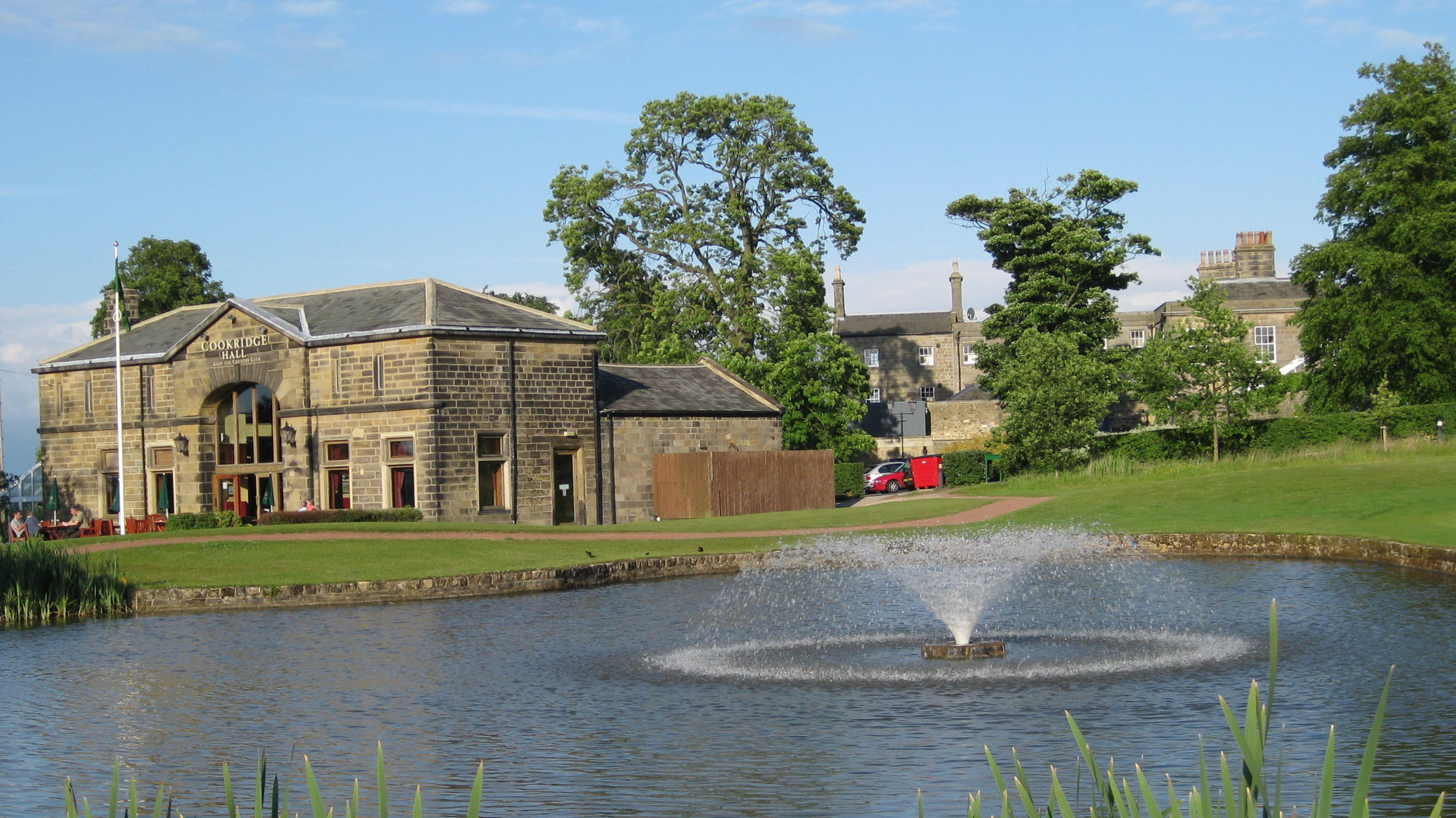 Cookridge Hall, Cookridge Lane, Leeds LS6 7NL. The Hall is in the background. The building to the left is the former coach house, now a golf clubhouse.